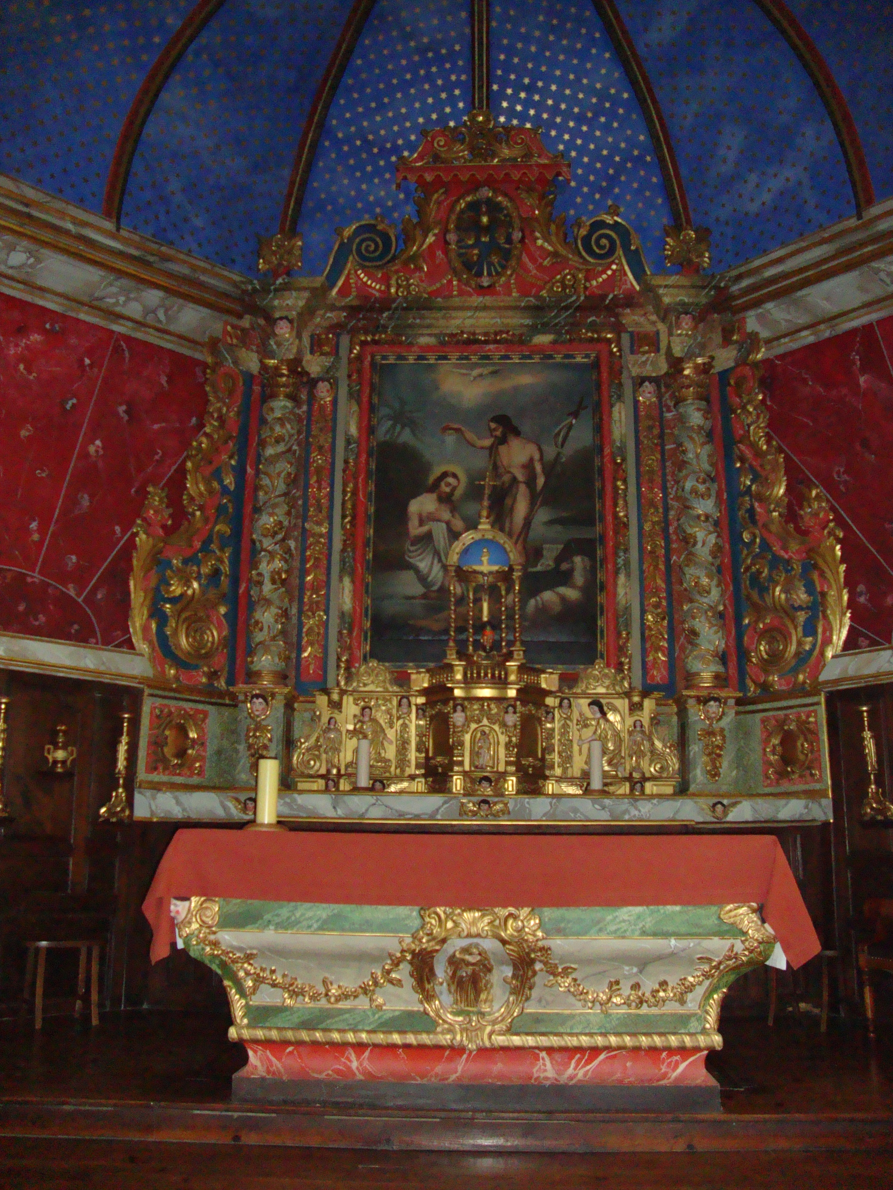 Charritte-de-Bas (Pyr-Atl, Fr) altar piece